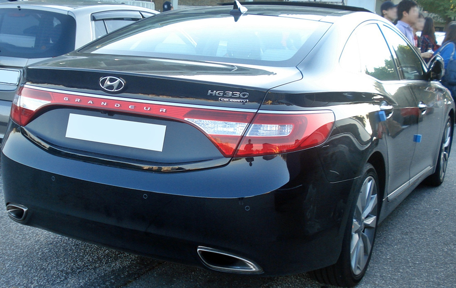 Hyundai 5G Grandeur